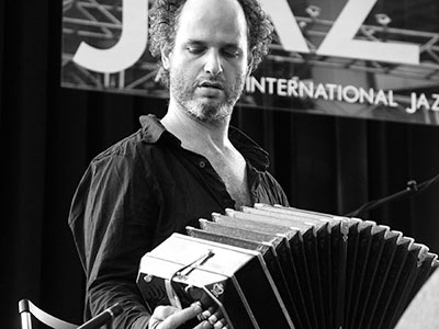 Marcelo Nisinman playing at Aarhus Jazz Festival, Denmark 2010